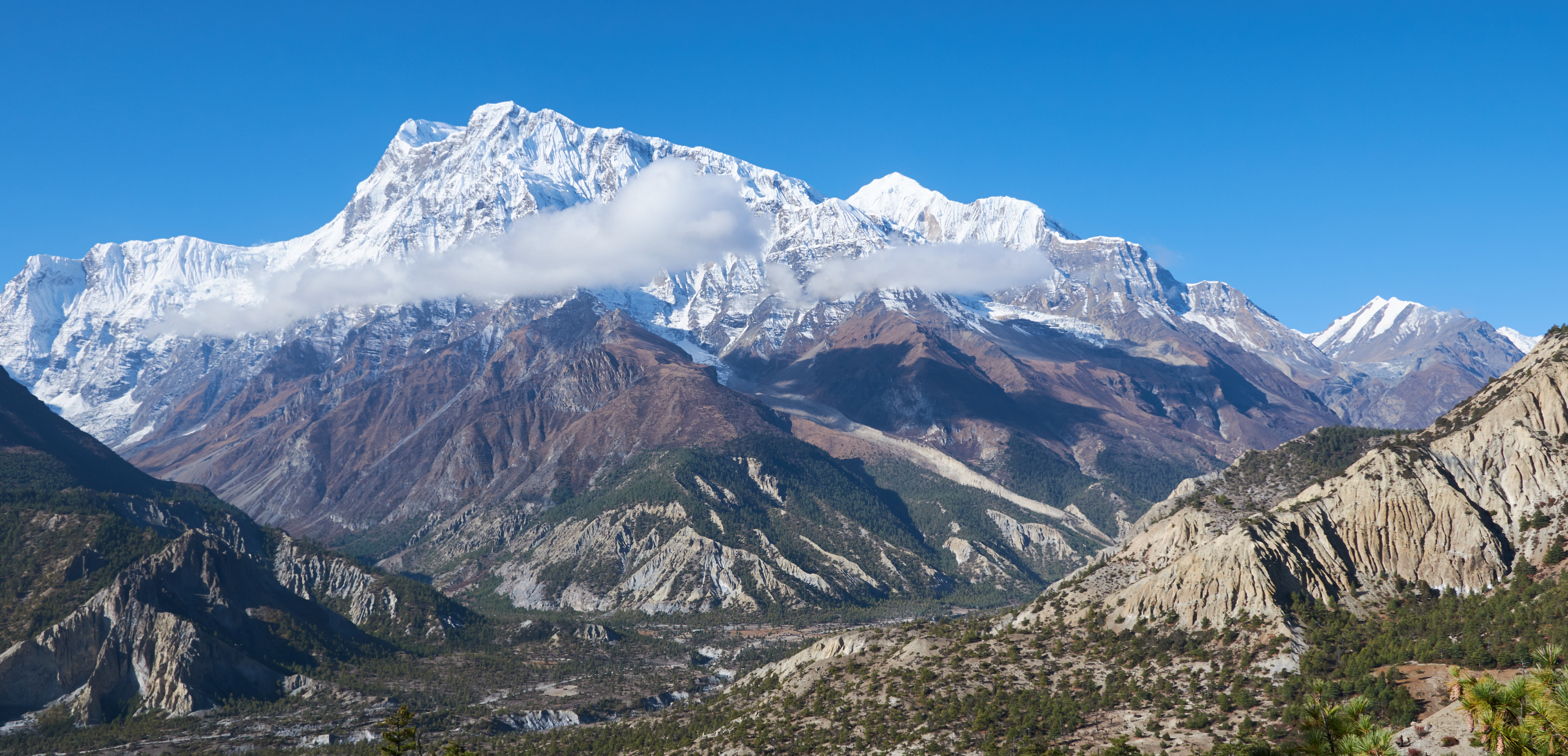 Annapurna mountain range from North